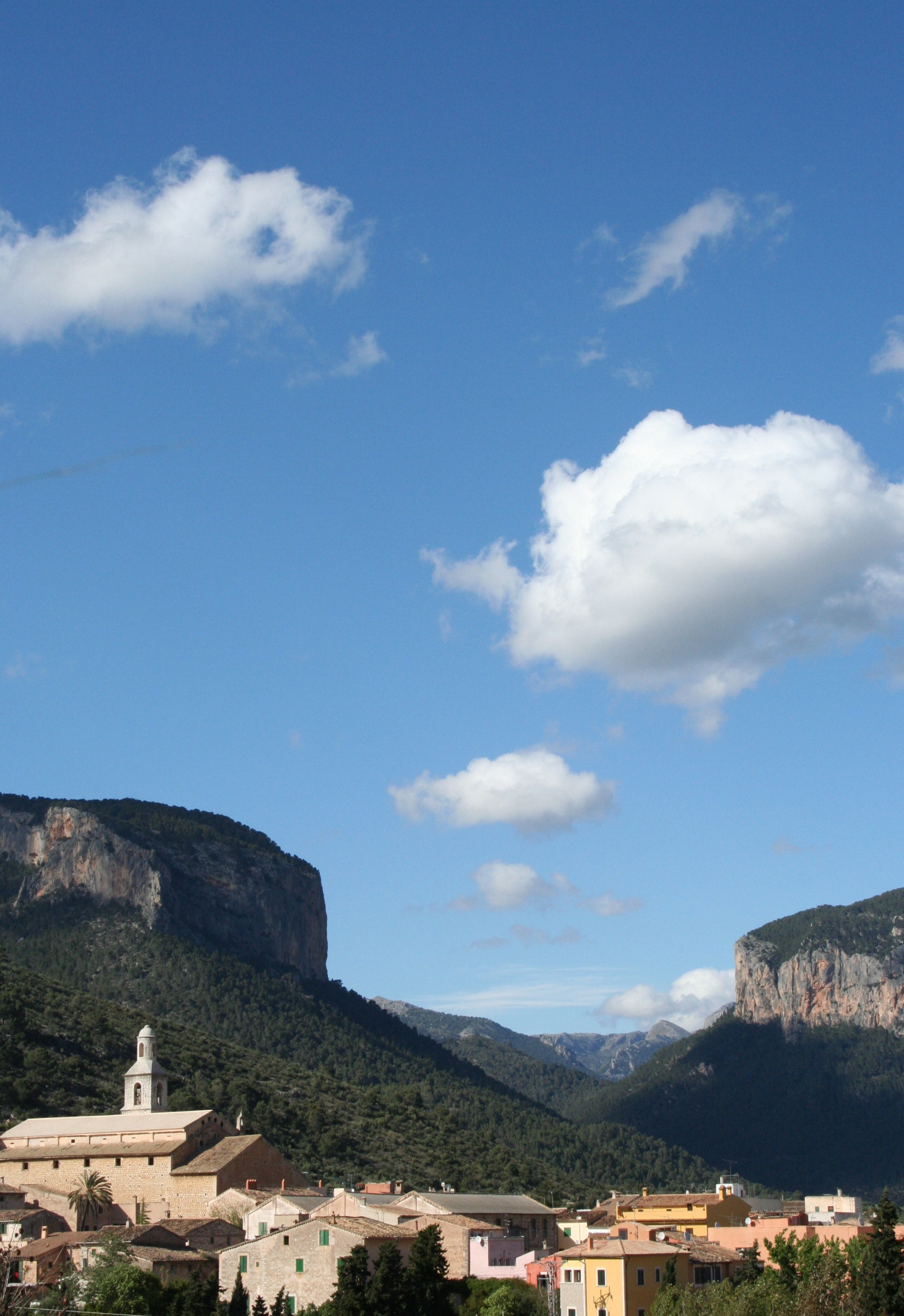 A view over the village to the mountains taken from the road that runs alongside the village school. The mountains are: Puig d’Alaró (left) and Puig d’Alcadena (right)